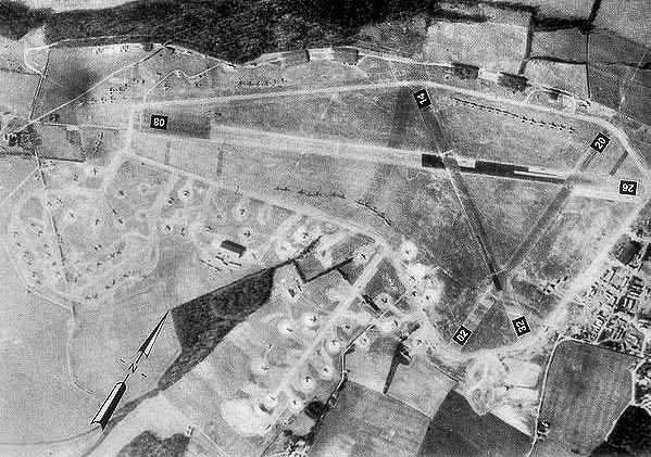 Aerial photograph of Ramsbury Airfield, England.